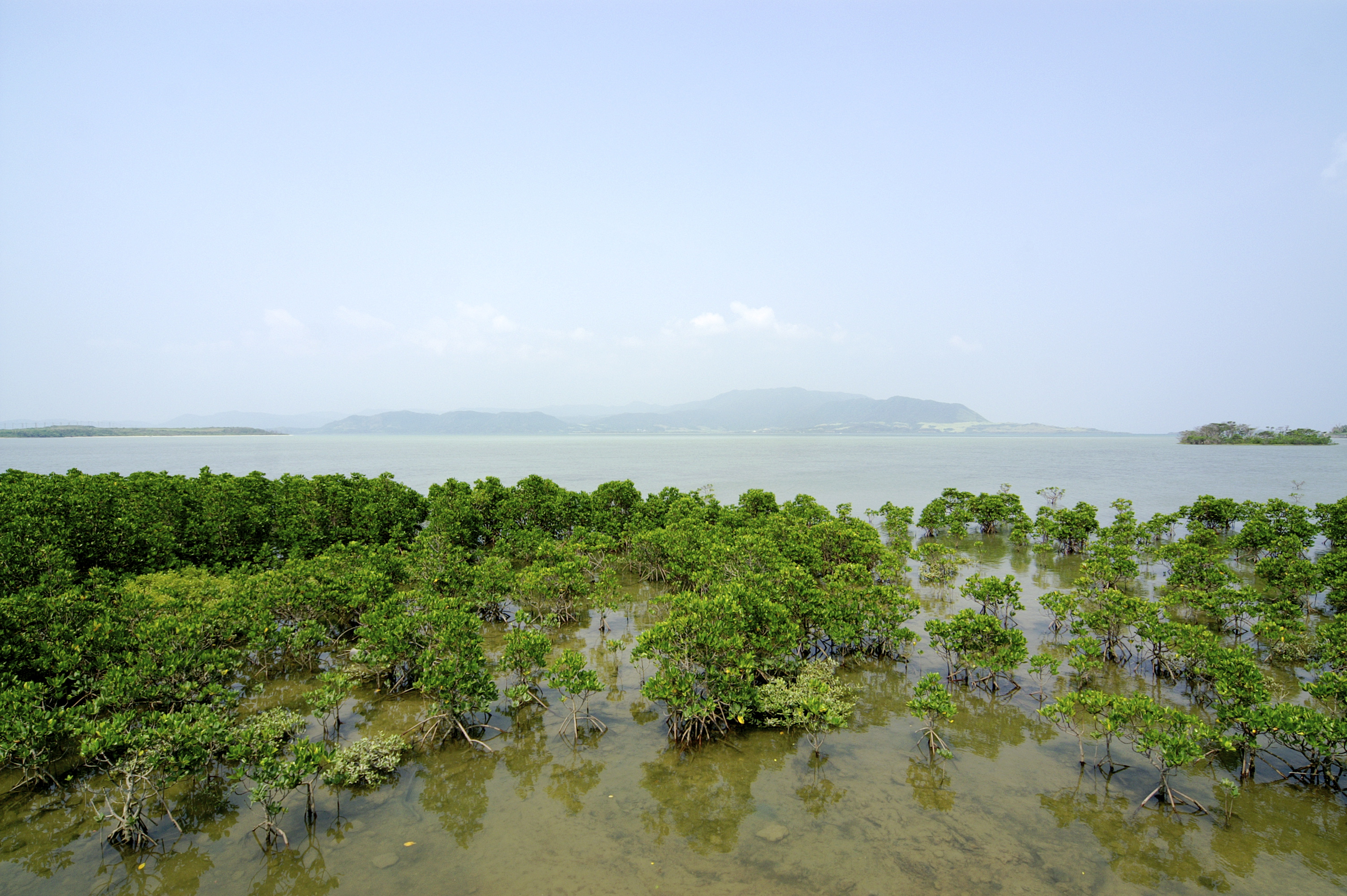 Iriomote-jima island above the Mangrove, at Kohama-jima island, Okinawa, JAPAN